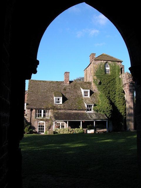 The Abbey Hotel, Llanthony The Abbey Hotel is built within the ruins of Llanthony Priory, a priory which was dissolved by Henry VIII in the 1530s. Here the hotel is framed by an arch of the ruined priory.